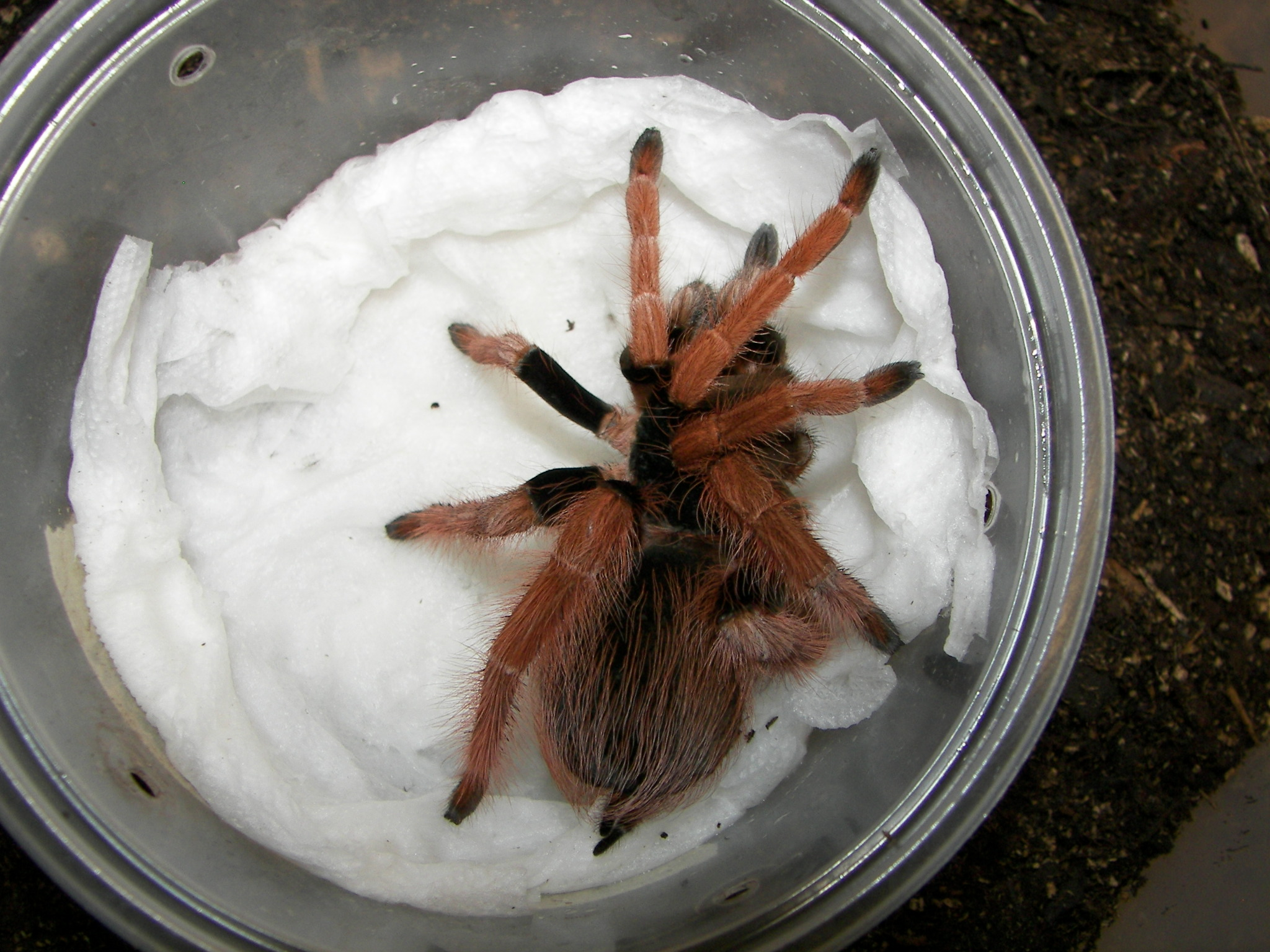 Female Megaphobema robustum.